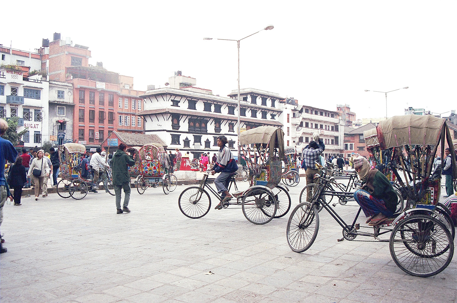 Pedicab drivers in Kathmandu near Durbar Square